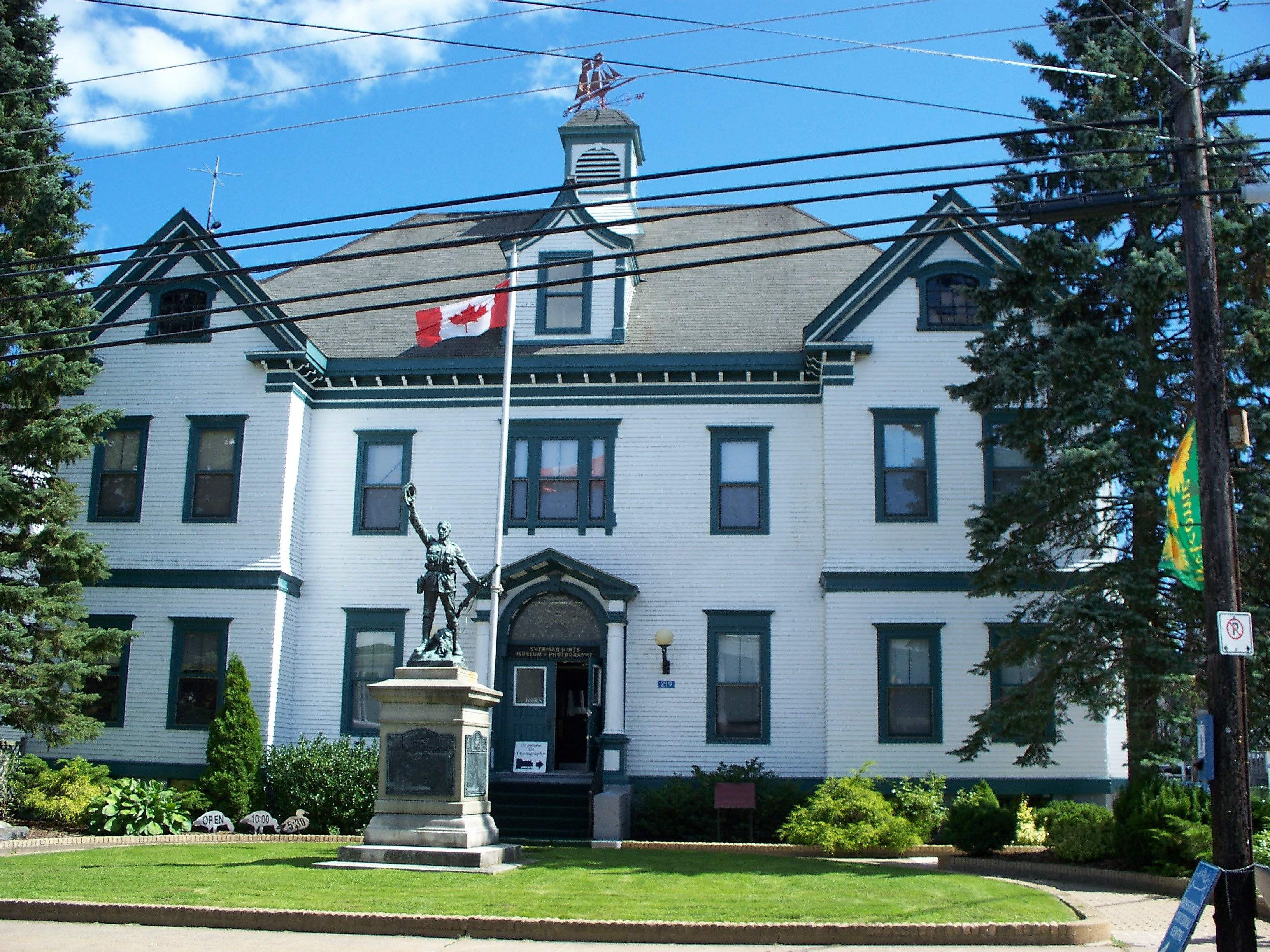 Old Town Hall, Liverpool, Queens County, Nova Scotia, Canada